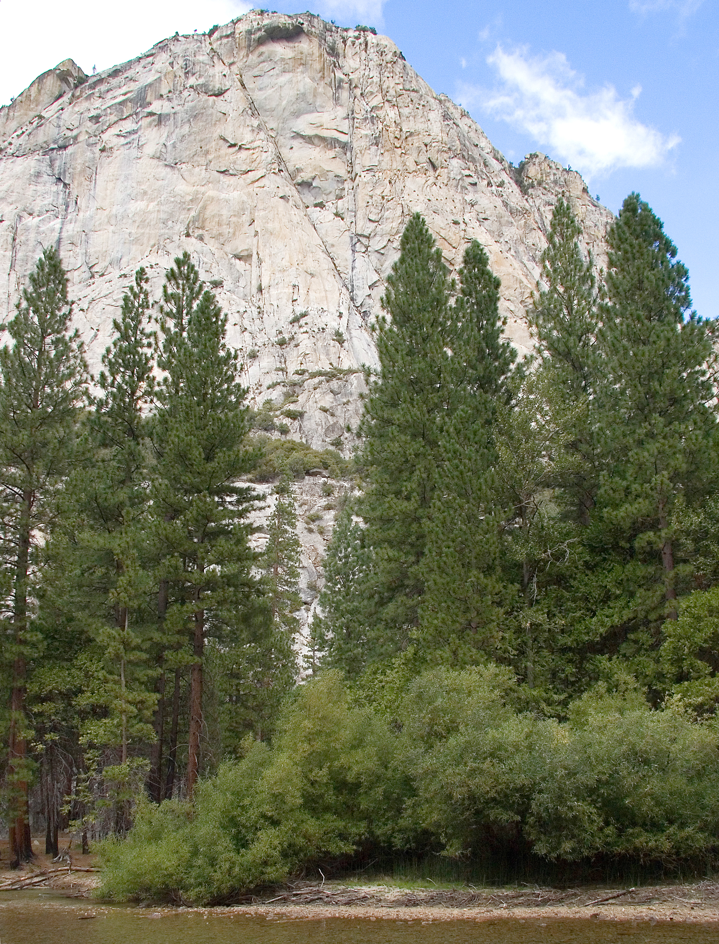 Pinus ponderosa subsp. benthamiana trees, below Grand Sentinel, Kings Canyon National Park, California